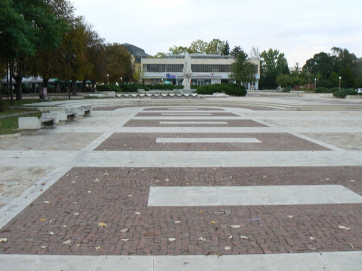 The central square in Mezdra, Bulgaria